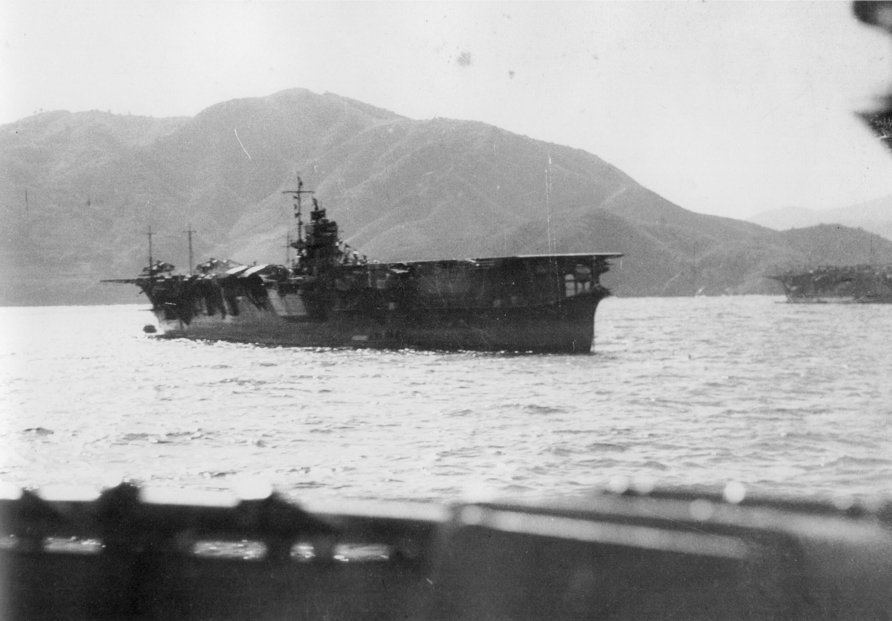 Japanese Aircraft Carrier Sōryū at anchor in the Kurile Islands, shortly before the start of the Pacific War